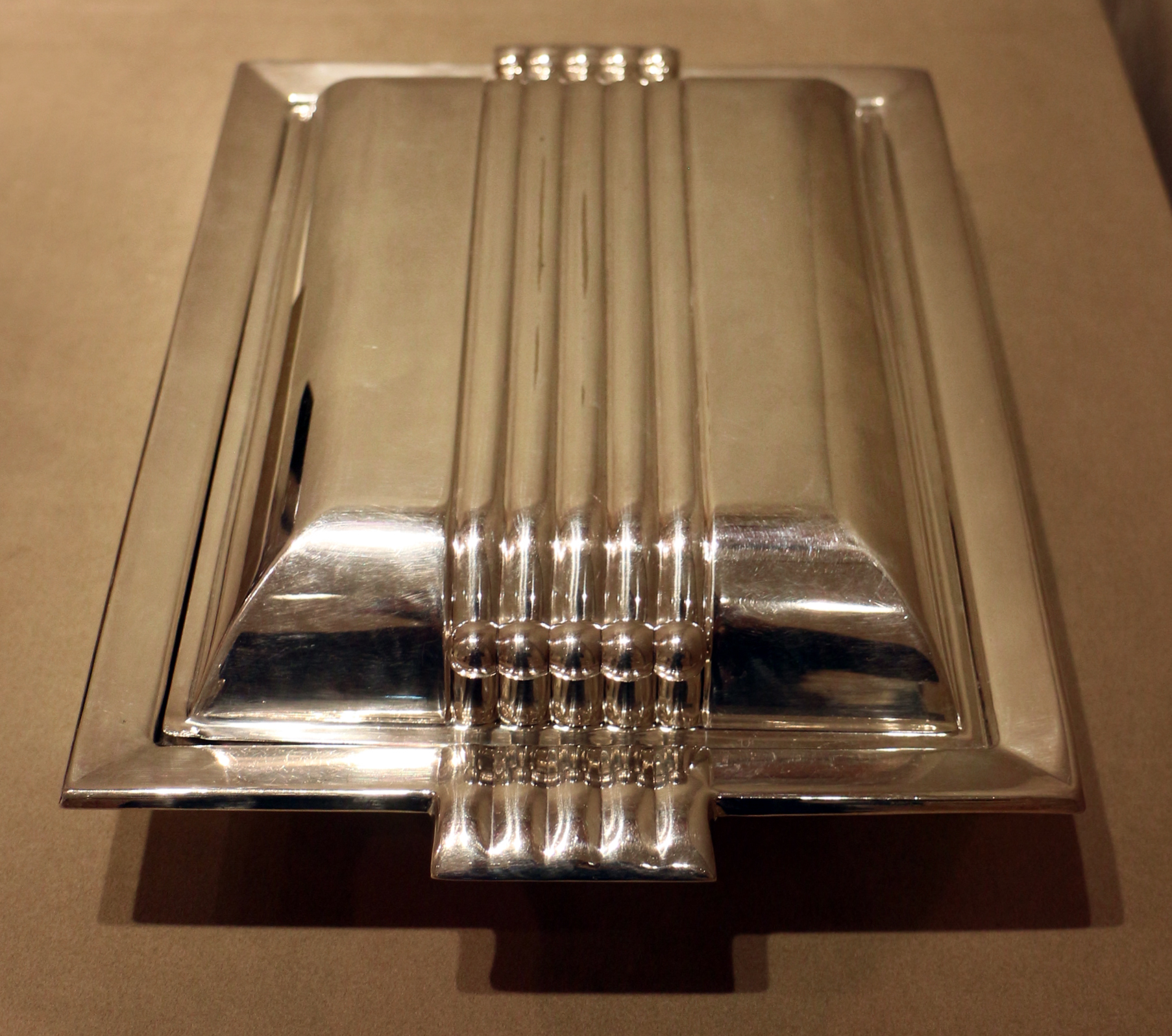 Metalware in the Indianapolis Museum of Art